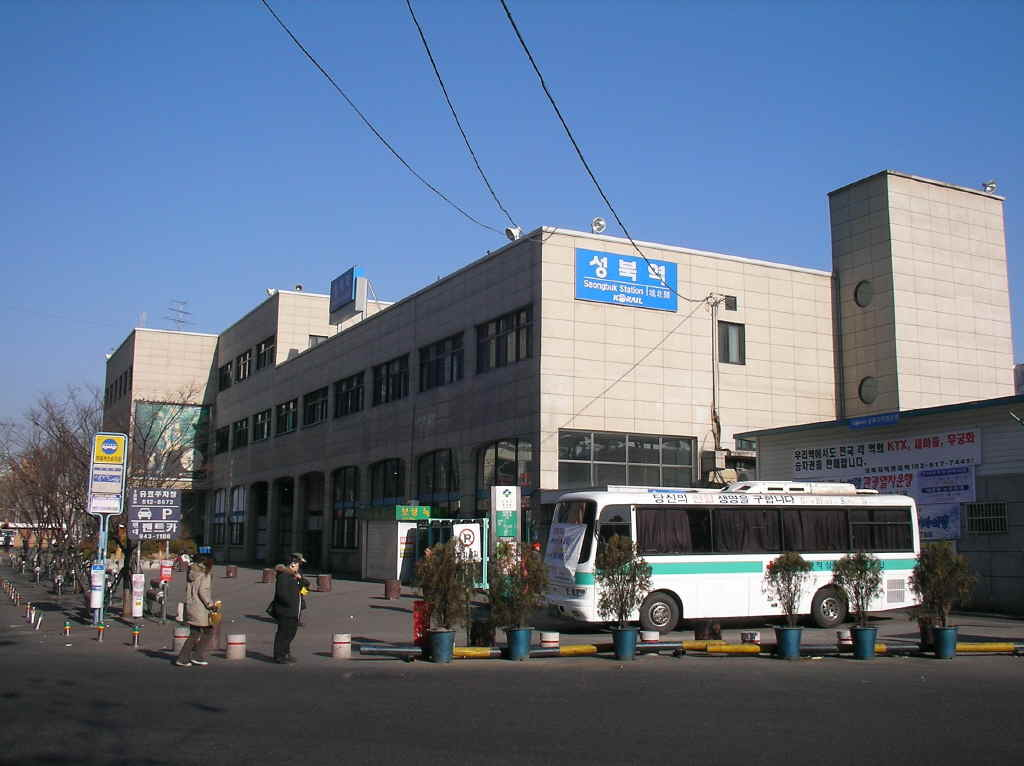 Seongbuk Station